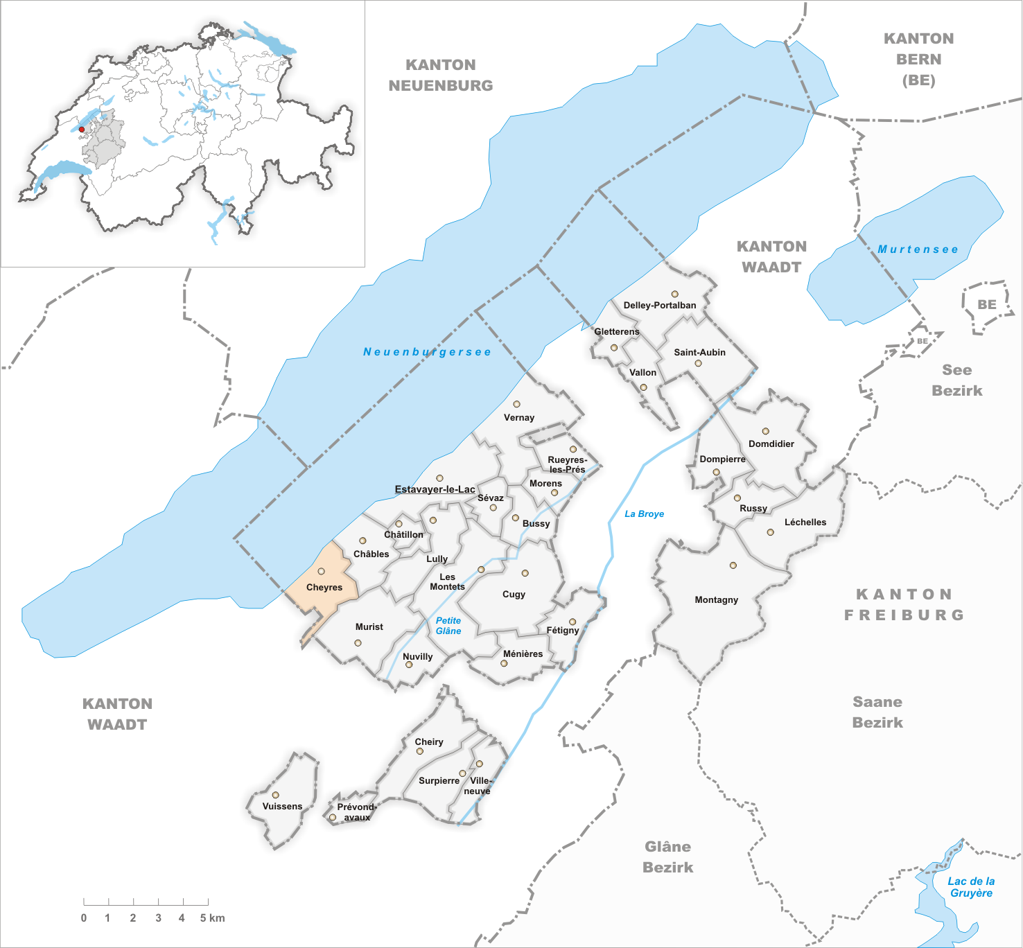 Municipality Cheyres